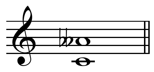 Diminished sixth on C = A. Just: = 743.02 cents. Equal-tempered: 27/12:1 = 700 cents. Created by Hyacinth (talk) 15:04, 30 September 2010 using Sibelius 5.